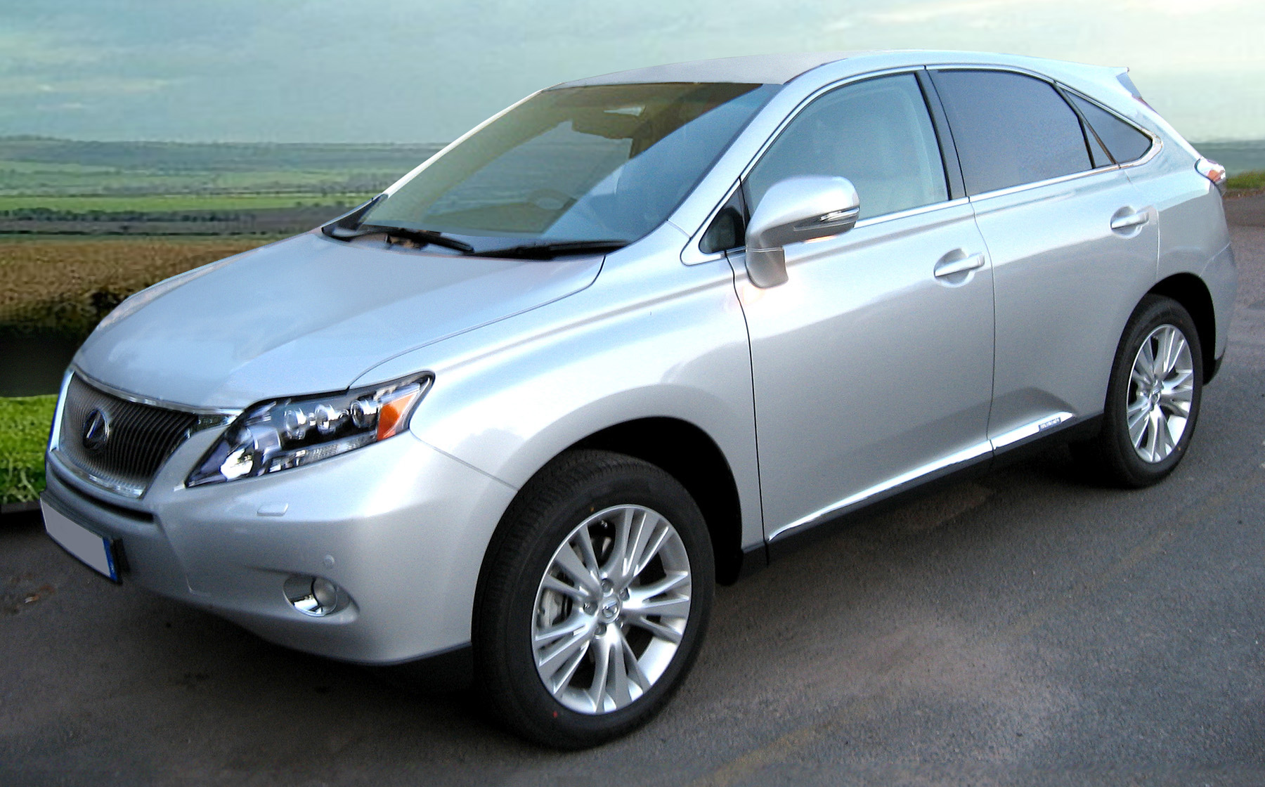 The car Henrik reviewed.Stocks Valley